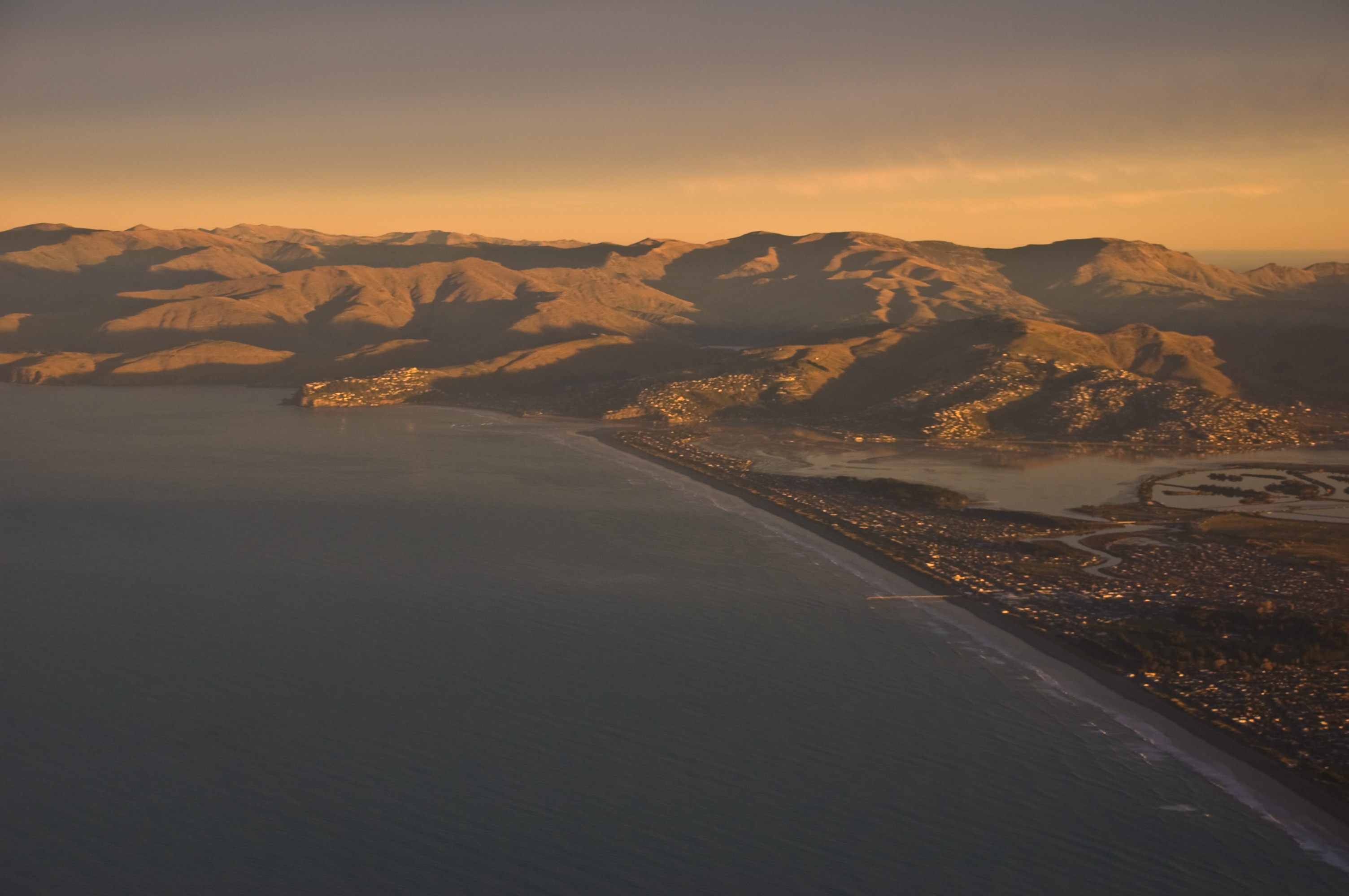 Arriving from Wellington in an Air New Zealand 737